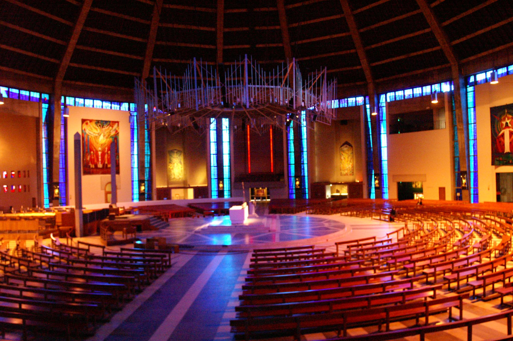 The image shows the inside of the Liverpool Metropolitan Cathedral in Liverpool.